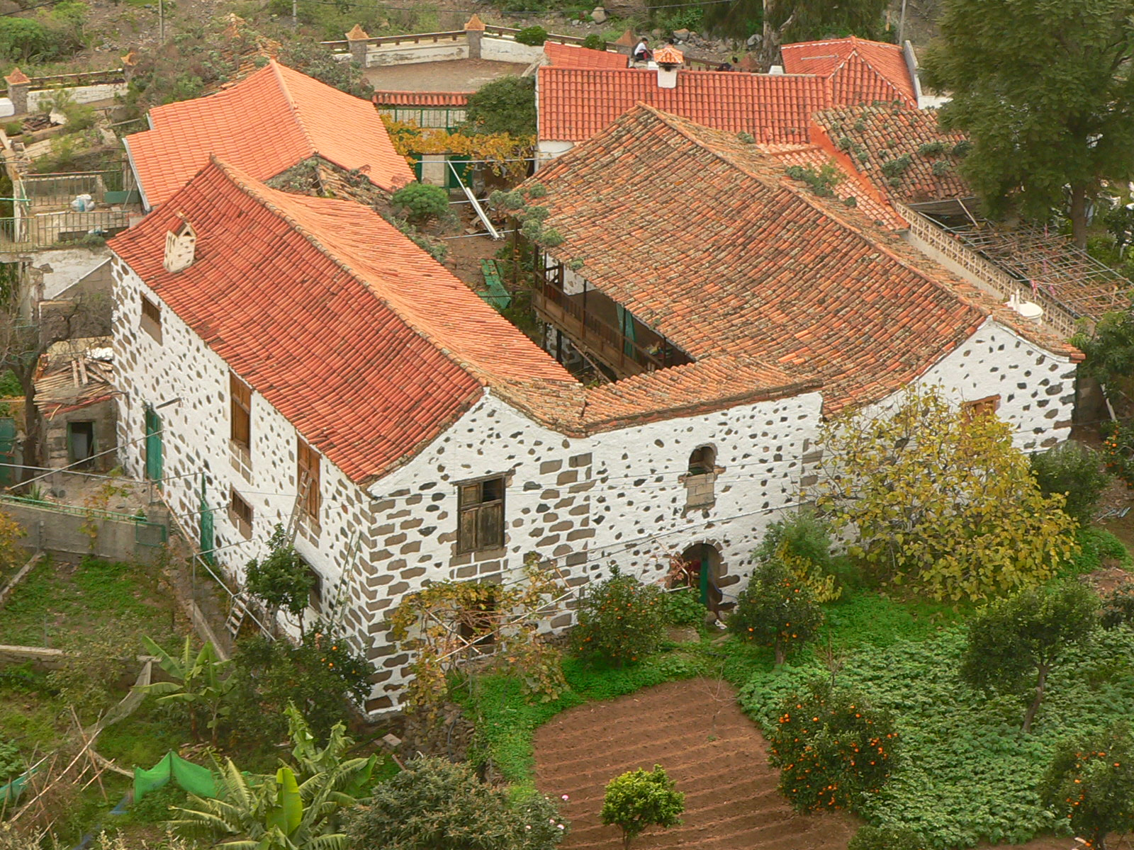 El Colmenar Barracks. This house used to be a military residence, now it's private. It's in the Barranco de San Miguel, Valsequillo (Gran Canaria). Canary Islands, Spain.